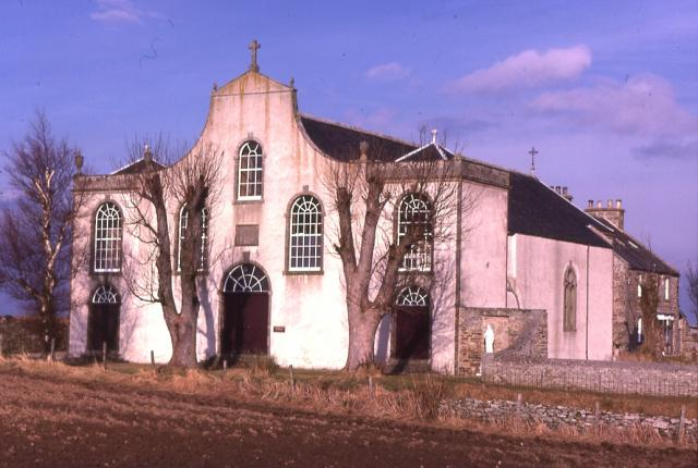 St Gregory's Church, Preshome. Preshome was the secret headquarters of the Roman Catholic Church in northern Scotland during the time when Roman Catholicism was officially disapproved of. After things relaxed in the late 18th century, this was the first new Roman Catholic church to be built in Scotland.